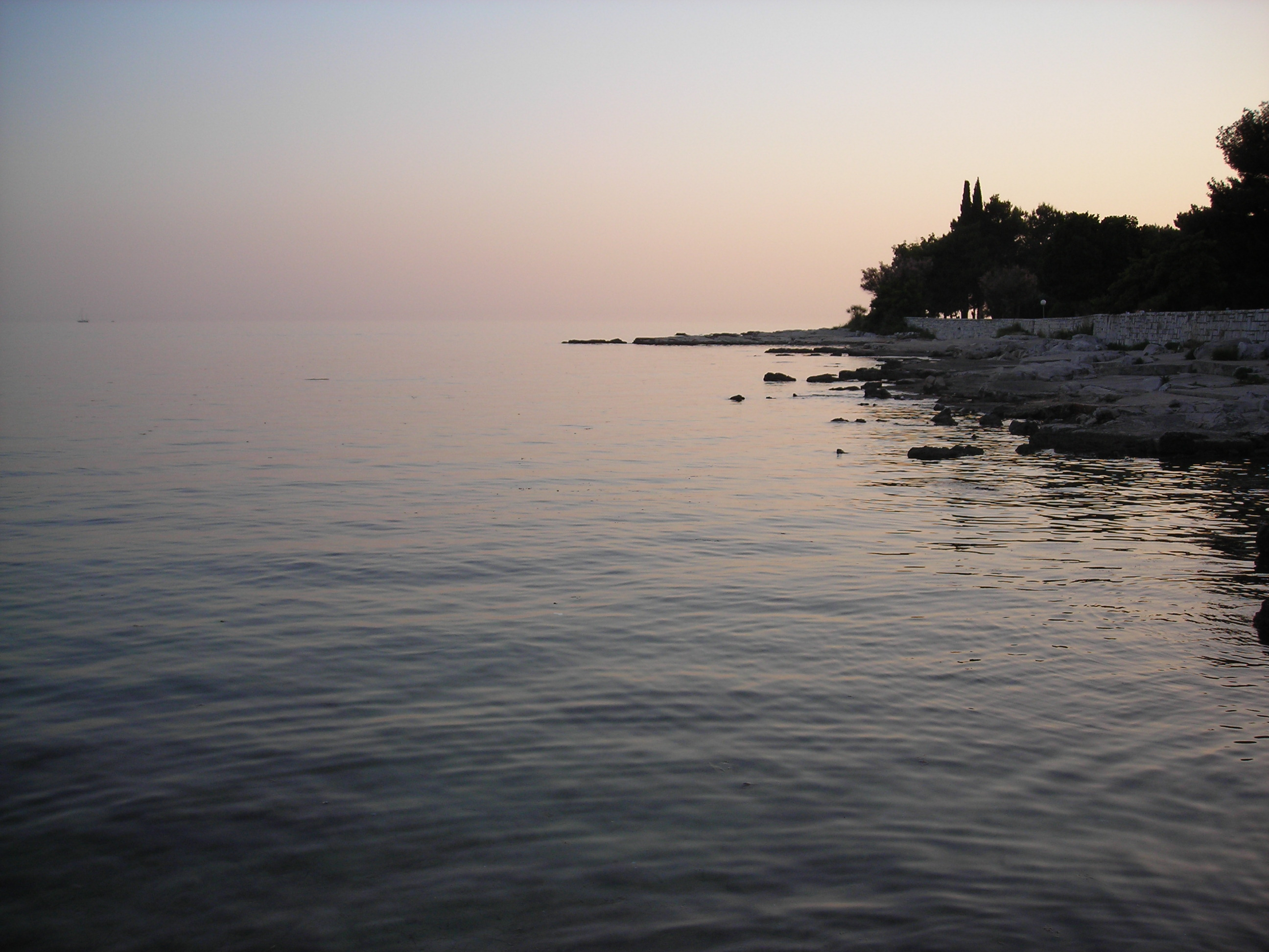 Coast of Umag, Croatia